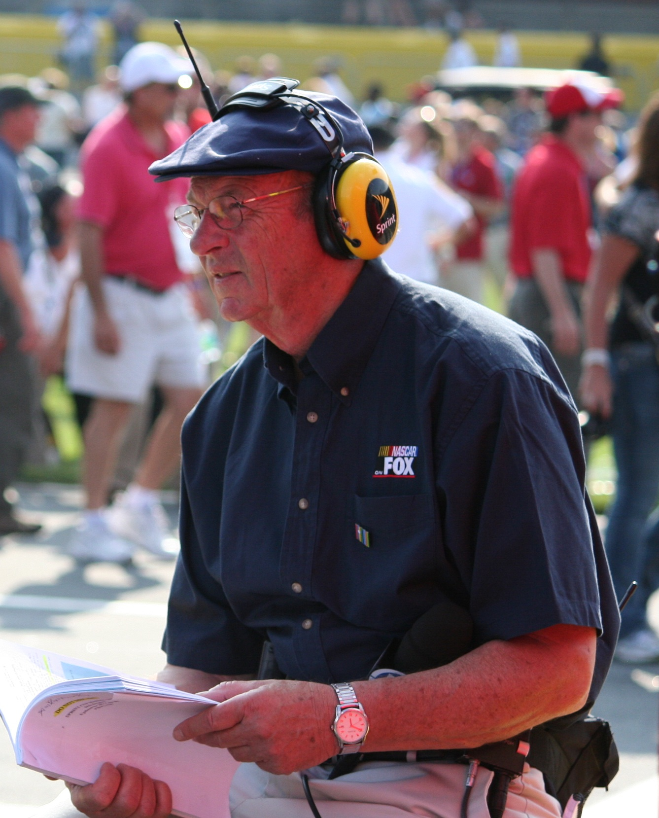 NASCAR on FOX pit reporter Dr. Dick Berggren before the Coca-Cola 600 at Charlotte Motor Speedway, May 29, 2011.